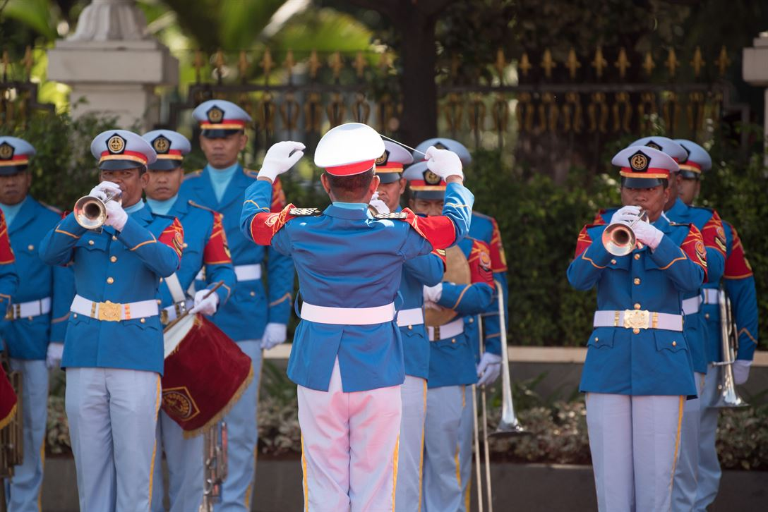 A military band plays during the welcome ceremony for Defense Secretary James N. Mattis at the Indonesian Defense Ministry in Jakarta, Indonesia, Jan. 23, 2018.